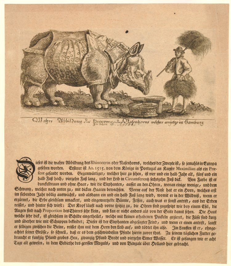 Flugblatt von 1744 (deutsch), das eine Schaustellung eines "zweiten Rhinoceros" nach "Dürers nashorn" ankündigt.